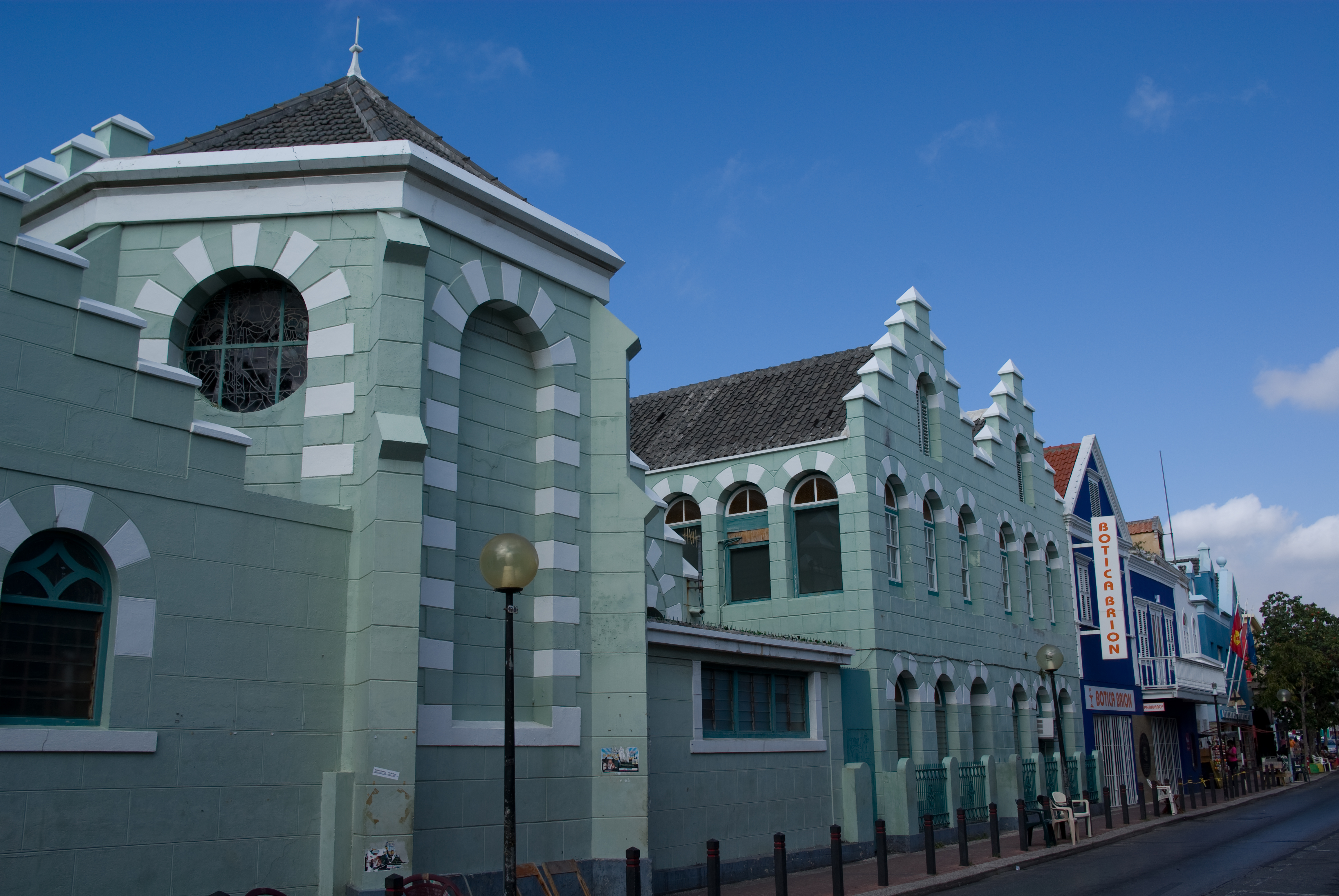 Founded in 1752, Otrabanda's Basilica Santa Ana was elevated to basilica and co-cathedral status by Pope Paul VI in 1975. The basilica also served as a pro-cathedral between 1843 and 1958. 31